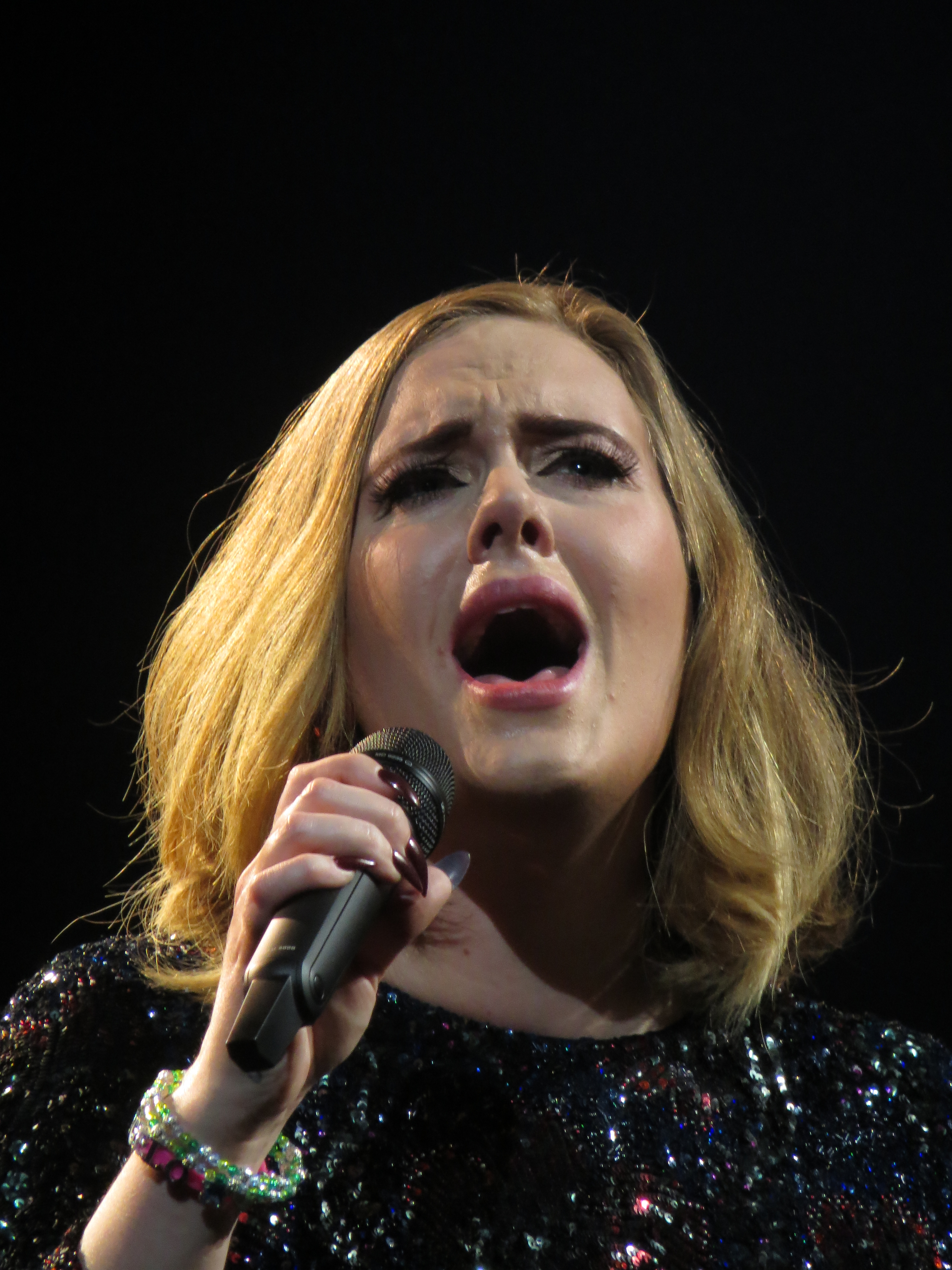 Adele Live 2016, Glasgow SSE Hydro, on 26 March 2016.